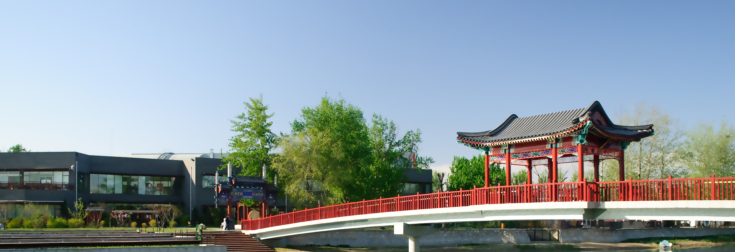 The Bridge that connects the High School and Middle School in the Western Academy of Beijing.